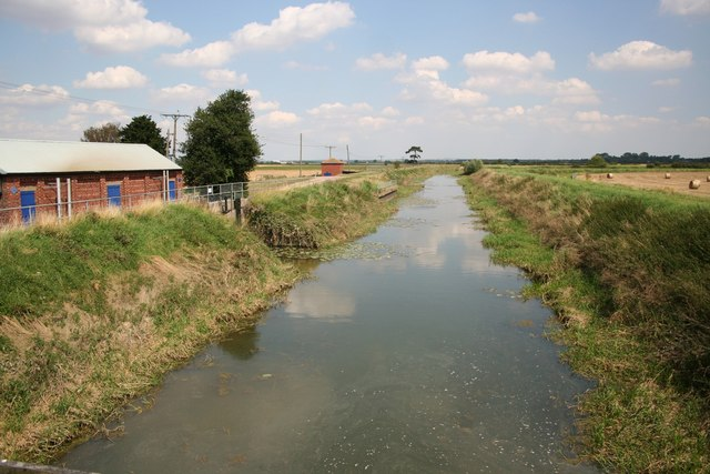 Catchwater Drain Where Catchwater Drain meets the Witham at Duckpool